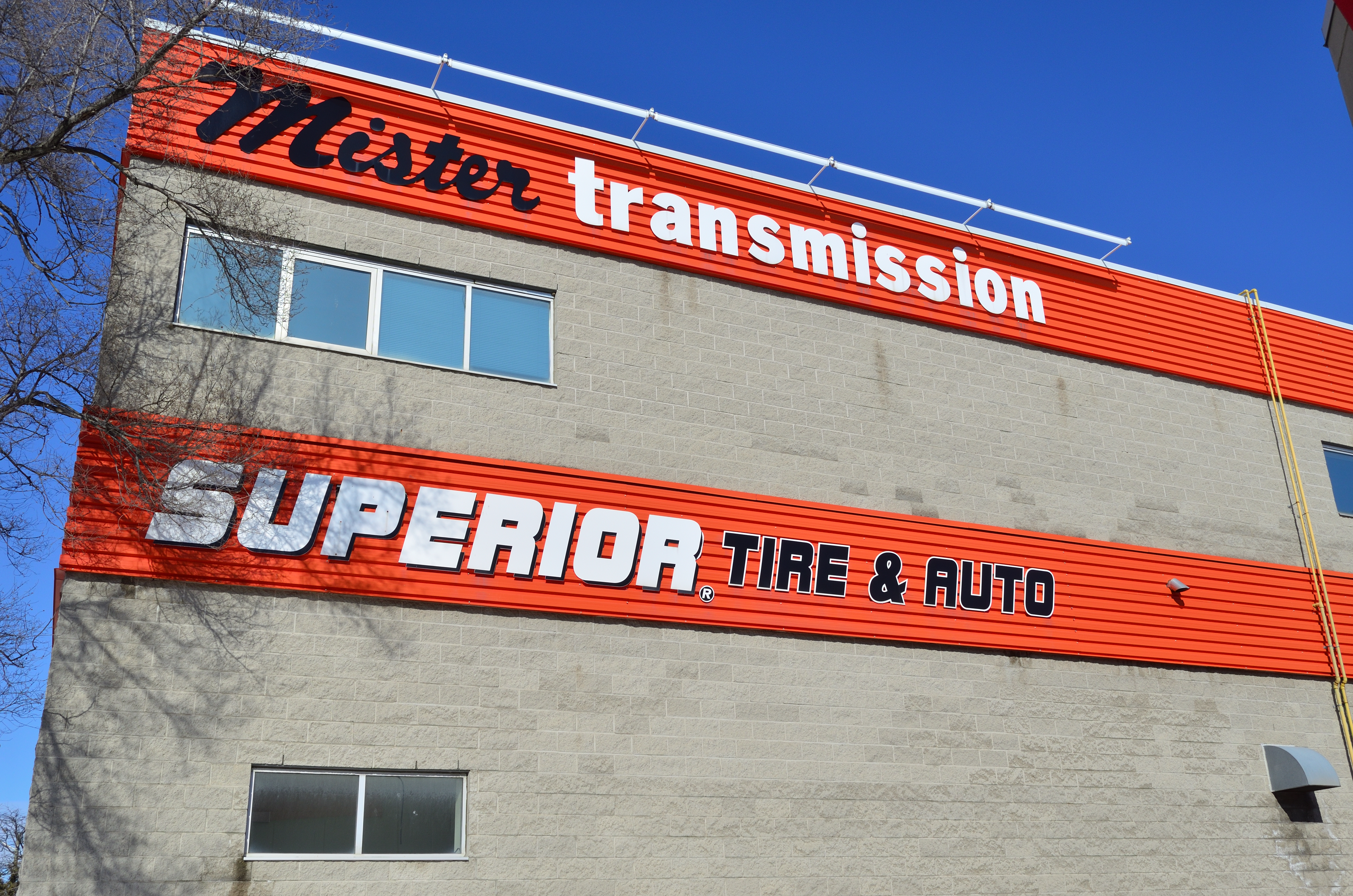 Mister Transmission - Address: 9677 Yonge St Unit 1, Richmond Hill, ON L4C 1V7